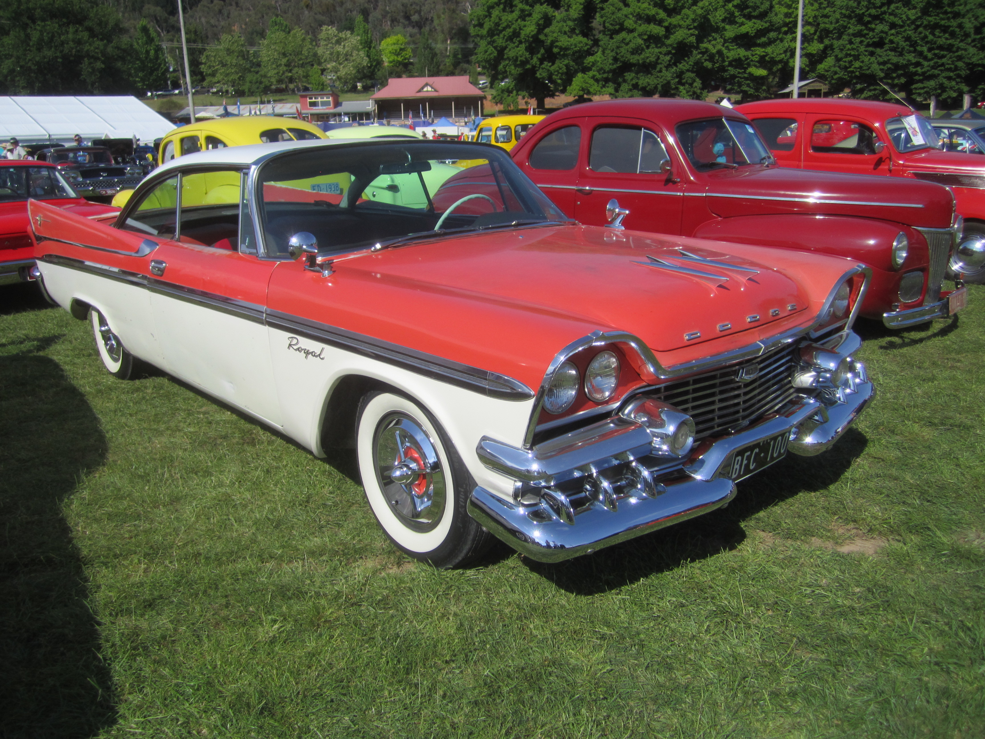 Base model was the Coronet, then mid; the Royal and top, the Custom Royal. Available in Sedan, 2 door Hardtop and Wagon. Engine; 270cu in Red Ram V8